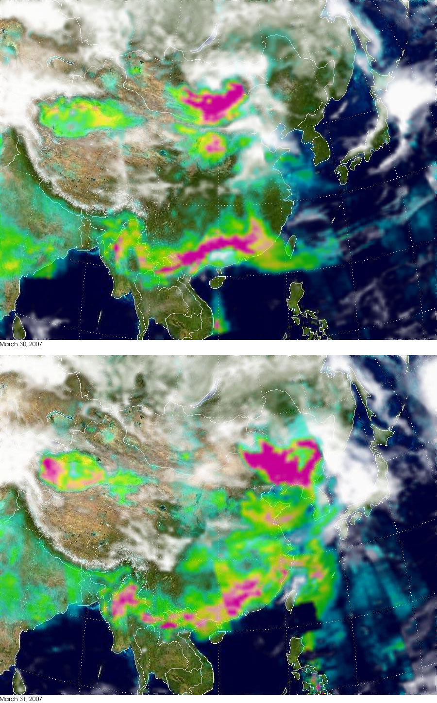 Springtime Aerosols over Eastern Asia.OMI captured these images on March 30 (top) and March 31 (bottom). The images superimpose a color-coded scale of aerosol thickness onto a natural-color image of eastern Asia, the Sea of Japan, and the western Pacific Ocean.